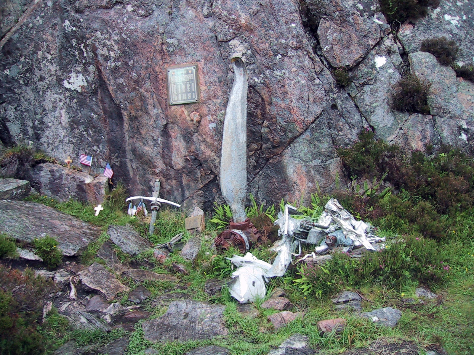 Aircraft wreckage at Fairy Lochs